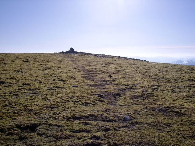 Geal Charn This shows the faint path towards the cairn at the summit of Geal Charn.